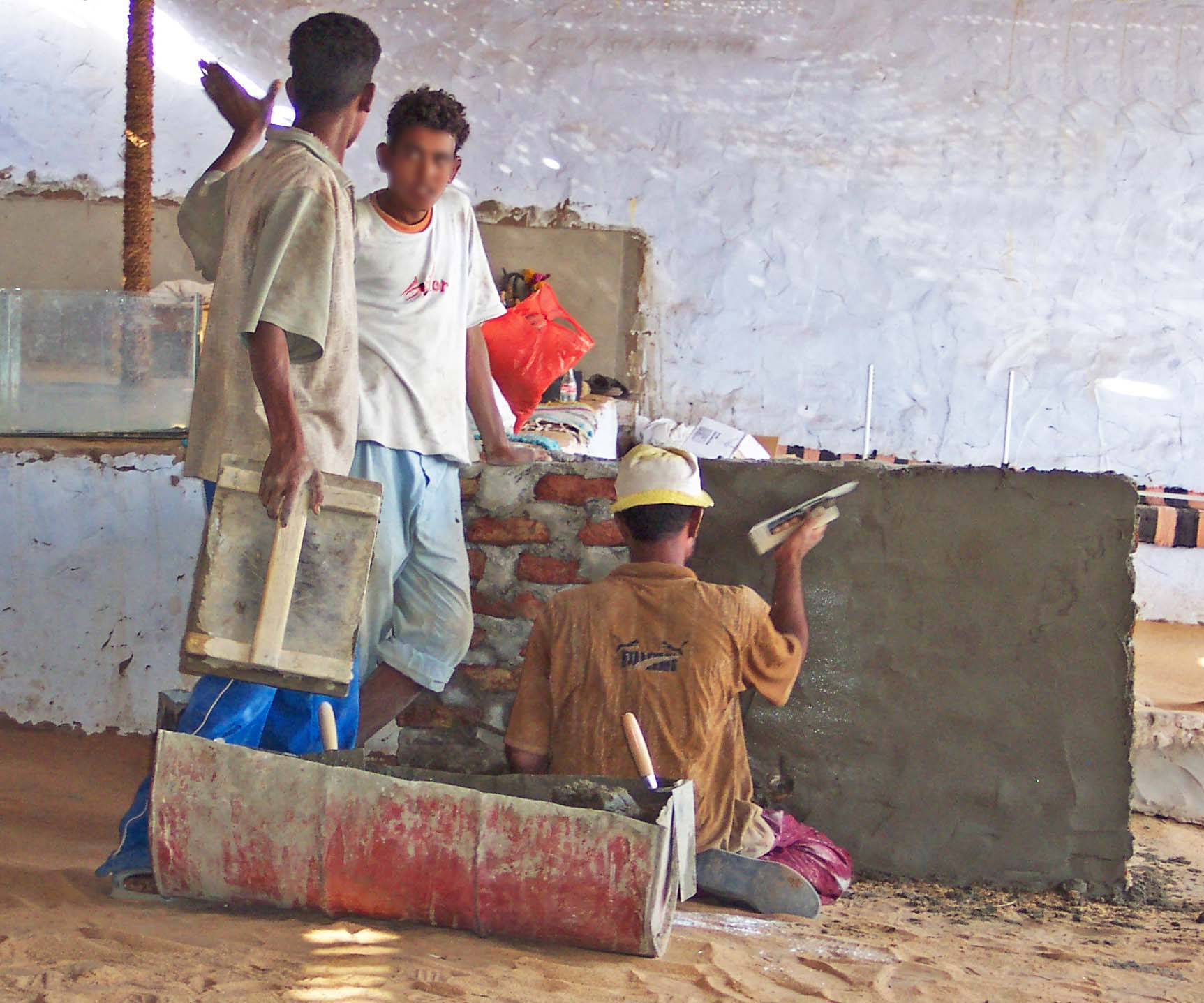 Apprentice listening to the advice of Master.